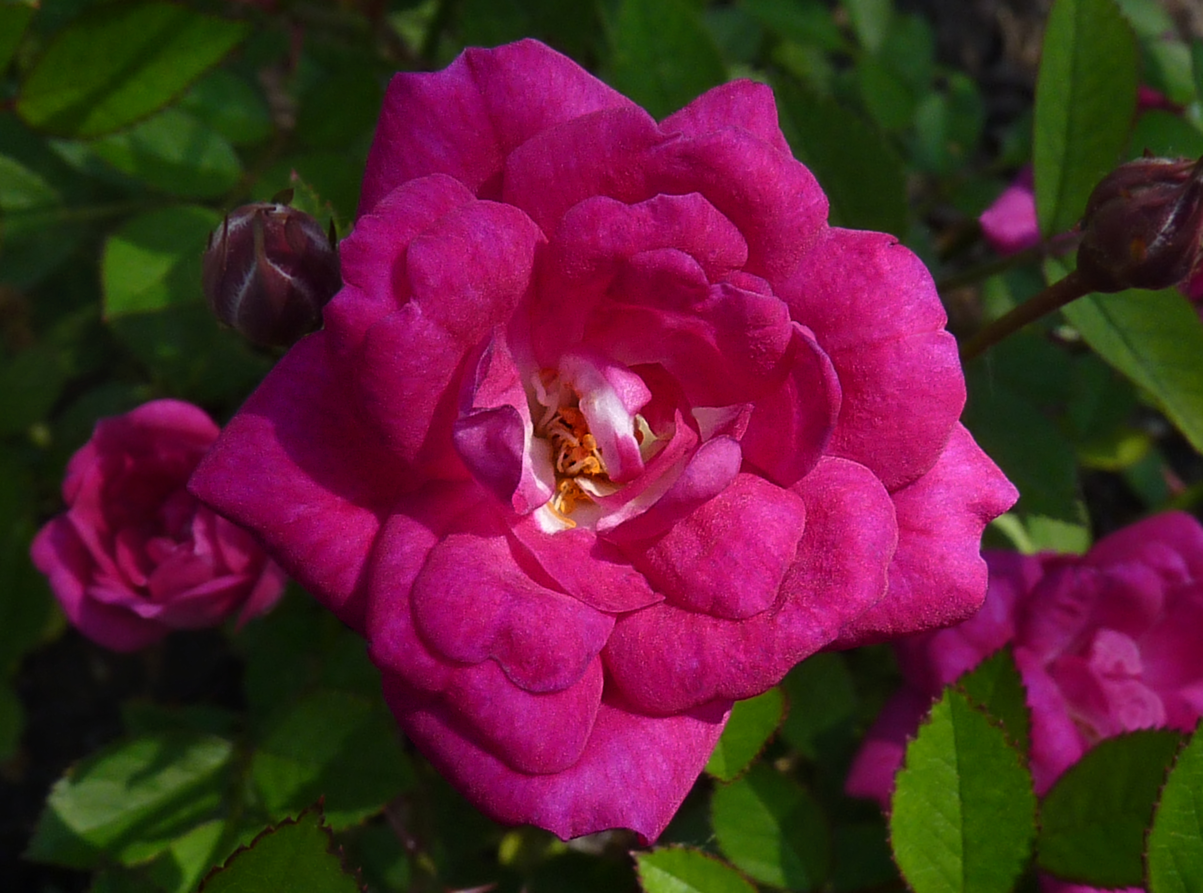 Rosa 'Perla de Alcanada' (Pedro Dot, 1944), in the international rose garden of Kortrijk, Belgium.